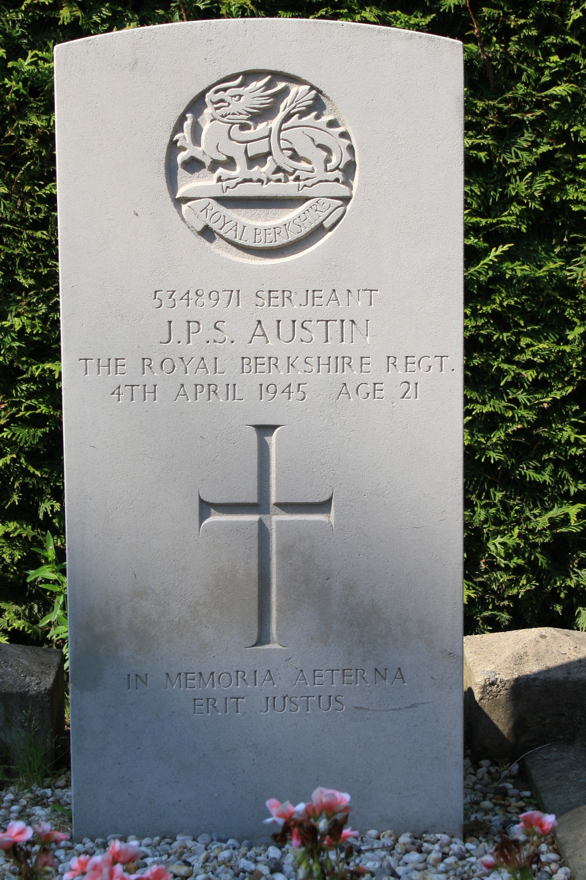 Commonwealth War Graves Commission headstone of Sgt JPS Austin in Hattem cemetery, Gelderland, the Netherlands. Rank: Sergeant Service No: 5348971 Date of Death: 04/04/1945 Age: 21 Regiment/Service: Royal Berkshire Regiment attd. Jedburgh Team (Dudley) Special Operations Executive Awards: Mentioned in Despatches